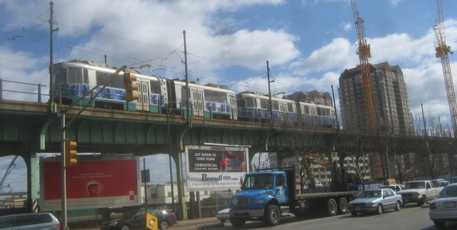 A two-car train of Type 7 cars on the Lechmere Elevated in March 2006